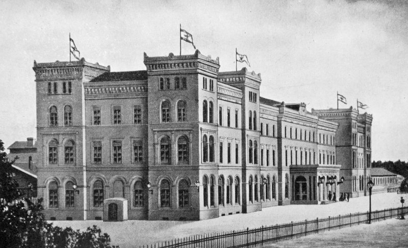 Bydgoszcz Main Railway Station around 1890.